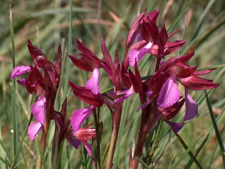 Flowers of Orchis papilionacea subsp. papilionacea. Thanks to the Natura Mediterraneo Forum for species determination.